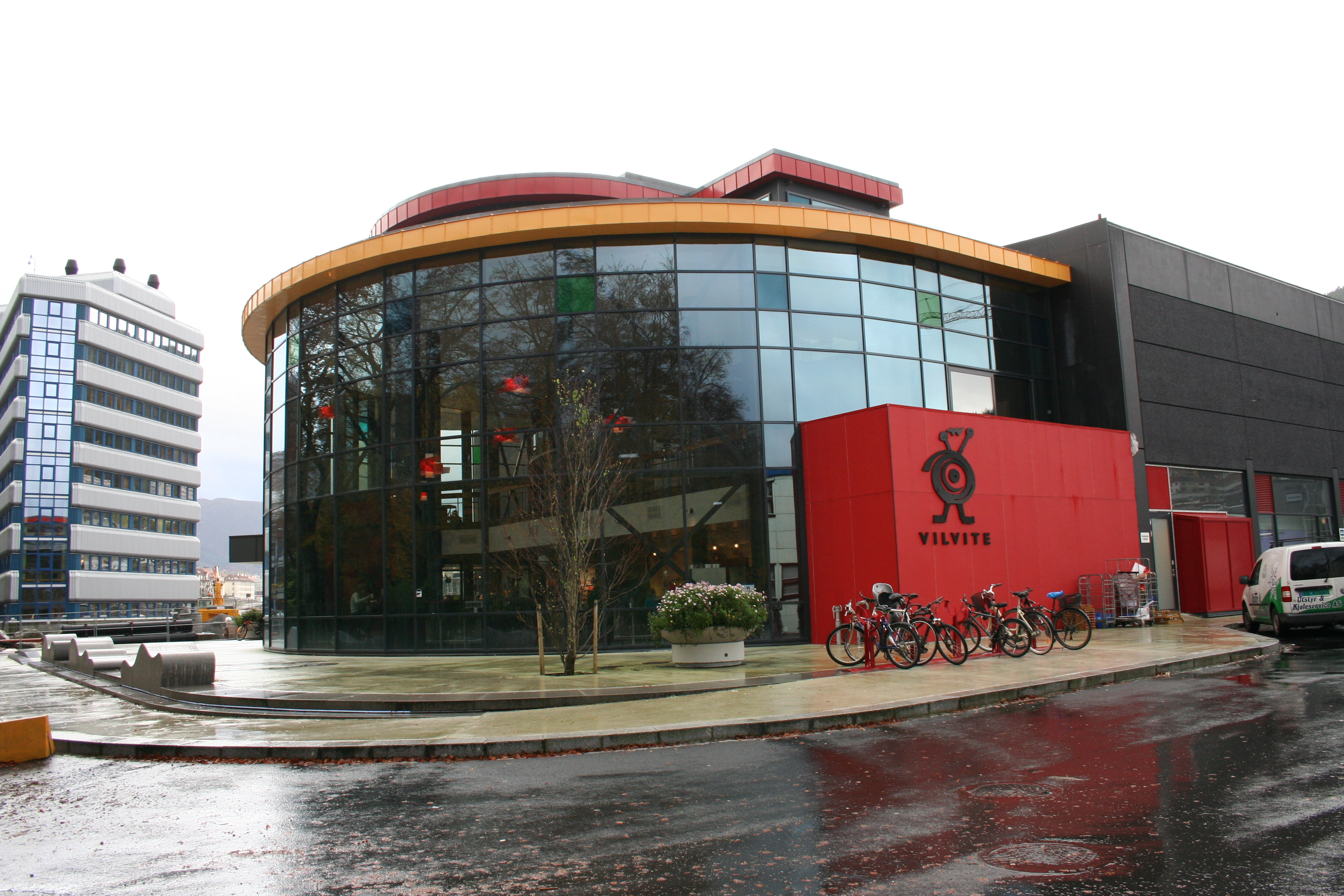 Another view of VilVite. See also image:Vilvite_bergen_vitensenter_bygg.jpg